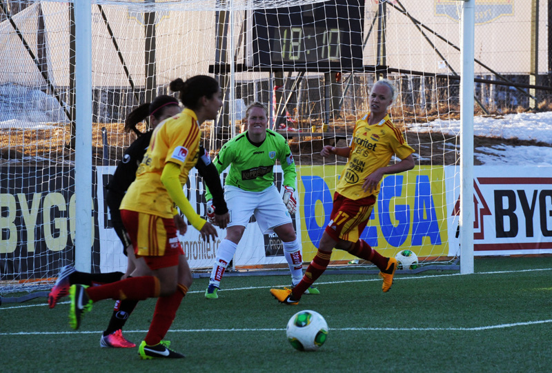 Christen Press during the final match against Kopparberg / Göteborg FC during the 2013 Svenska Supercupen on April 1, 2013.